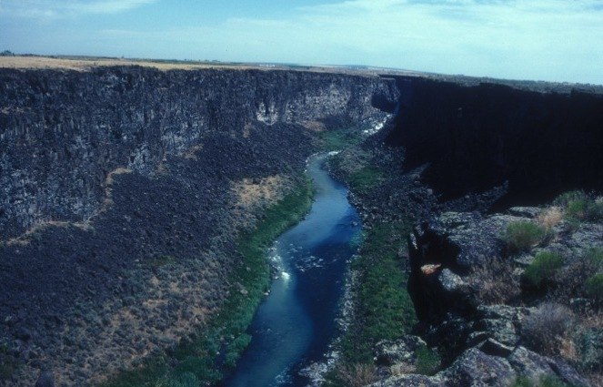 Malad Gorge State Park. The gorge is located along the Snake River in southern Idaho.